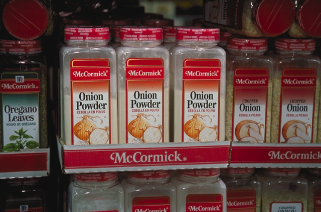 McCormick brand dry goods in a wholesale club in Virginia.